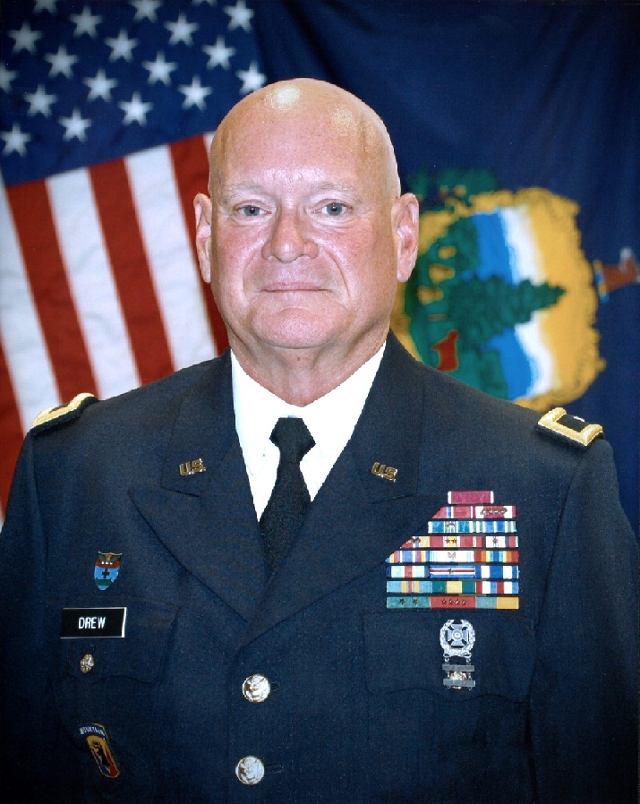 Brigadier General (Vermont) Thomas E. Drew, Vermont Adjutant General